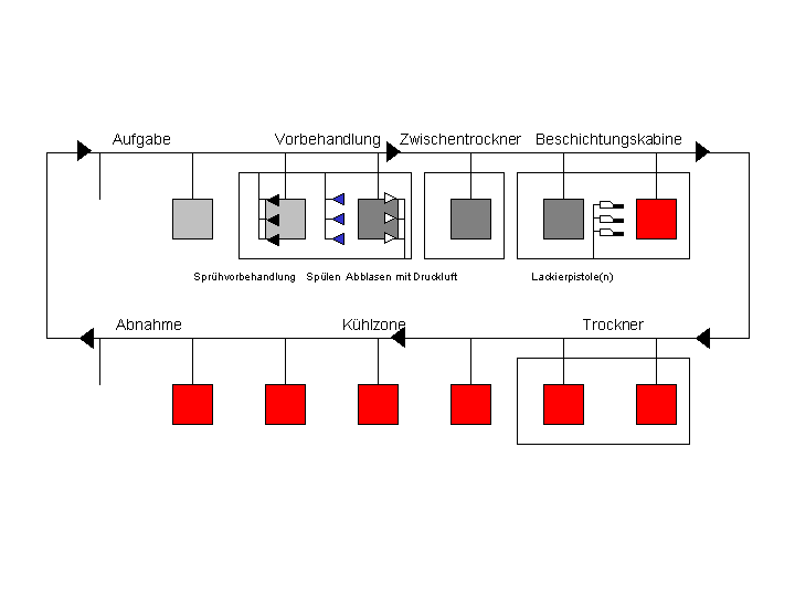 It is shown, how the single tasks in a powder coatings application plant including pretreatment (spraying), drying, application, curing, cooling zone.